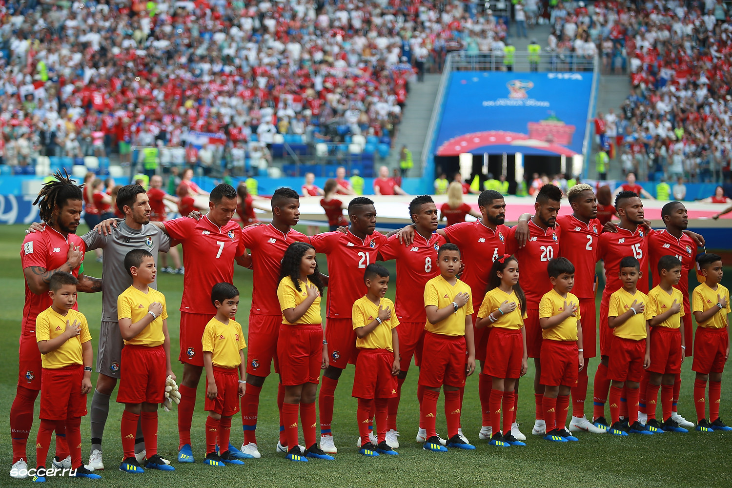 Panama national football team